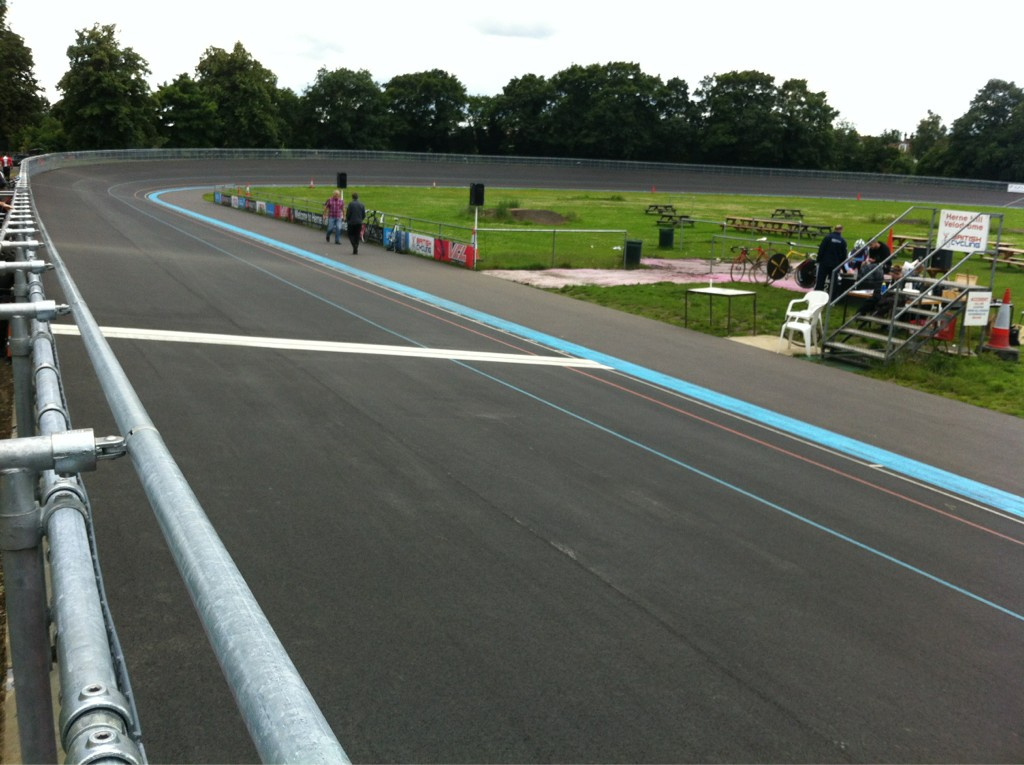 @simonmacmichael at Herne Hill Velodrome. Looks incredible. New surface and a race here.